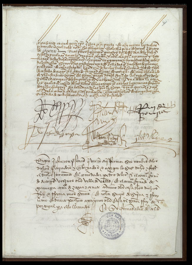 Original page from the Tratado de Tordesilhas